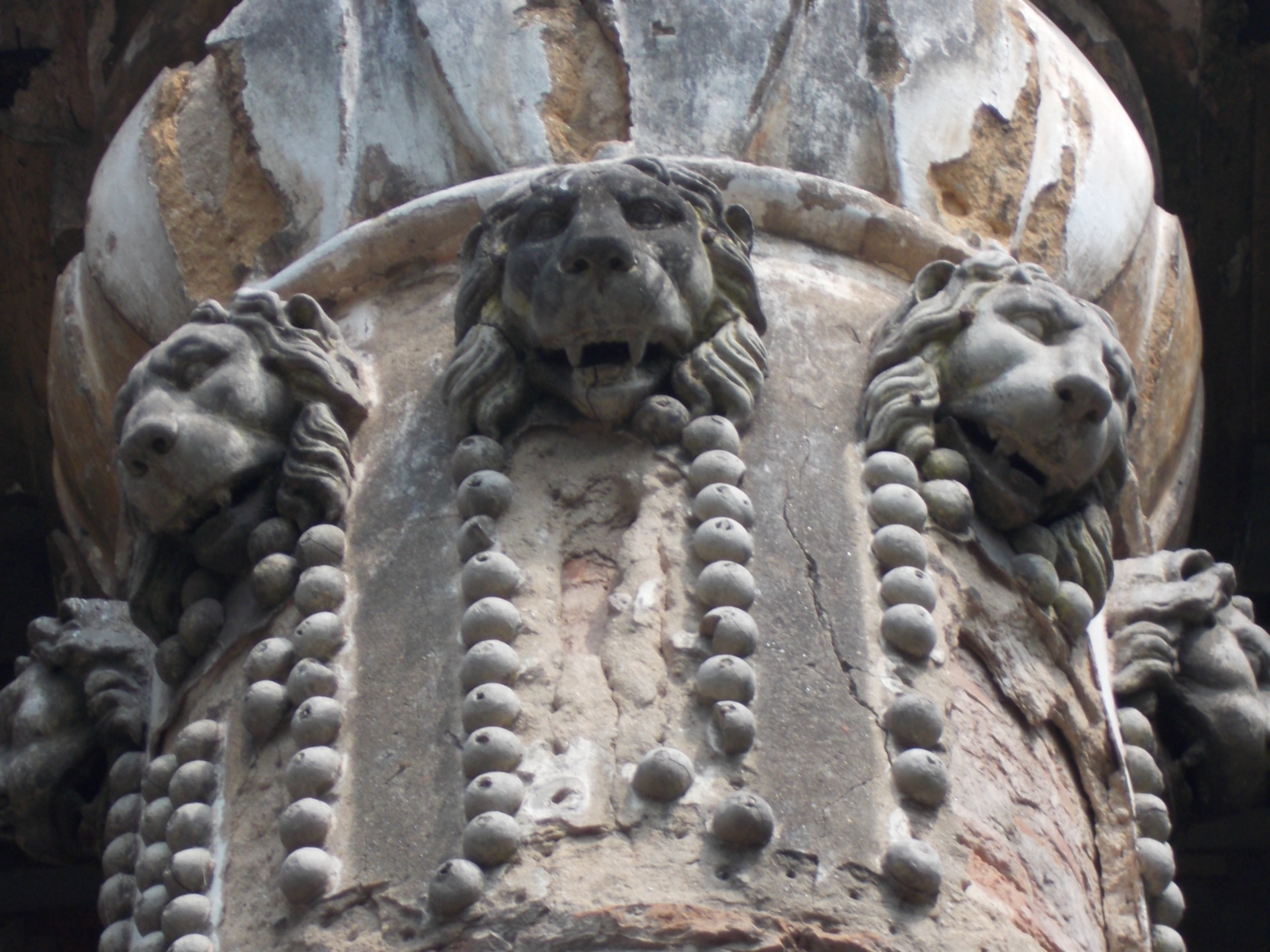 the lion faces on the pillars